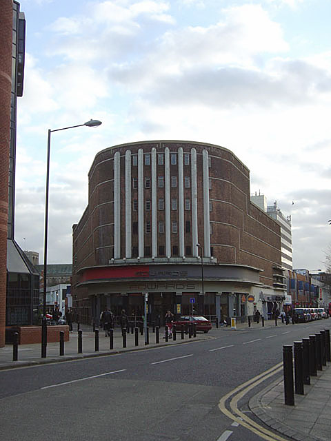 The Embassy, a former cinema on Broadway in Peterborough, England. It was built in 1937 and ceased to be a cinema in 1989.